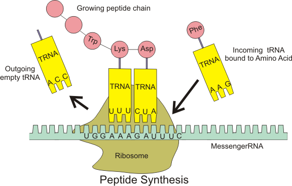 Illustration of Translation: A ribosome, a mRNA and lots of tRNAs (each bound to an amino acid), interact to build a peptide (or a protein) molecule.) Note: Transcription is not depicted here.